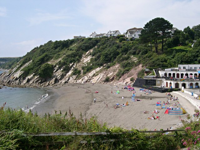 Millendreath Beach This was 2004 when this was a popular beach with a cafe and bar. By 2006 things had changed for the worse 208176.